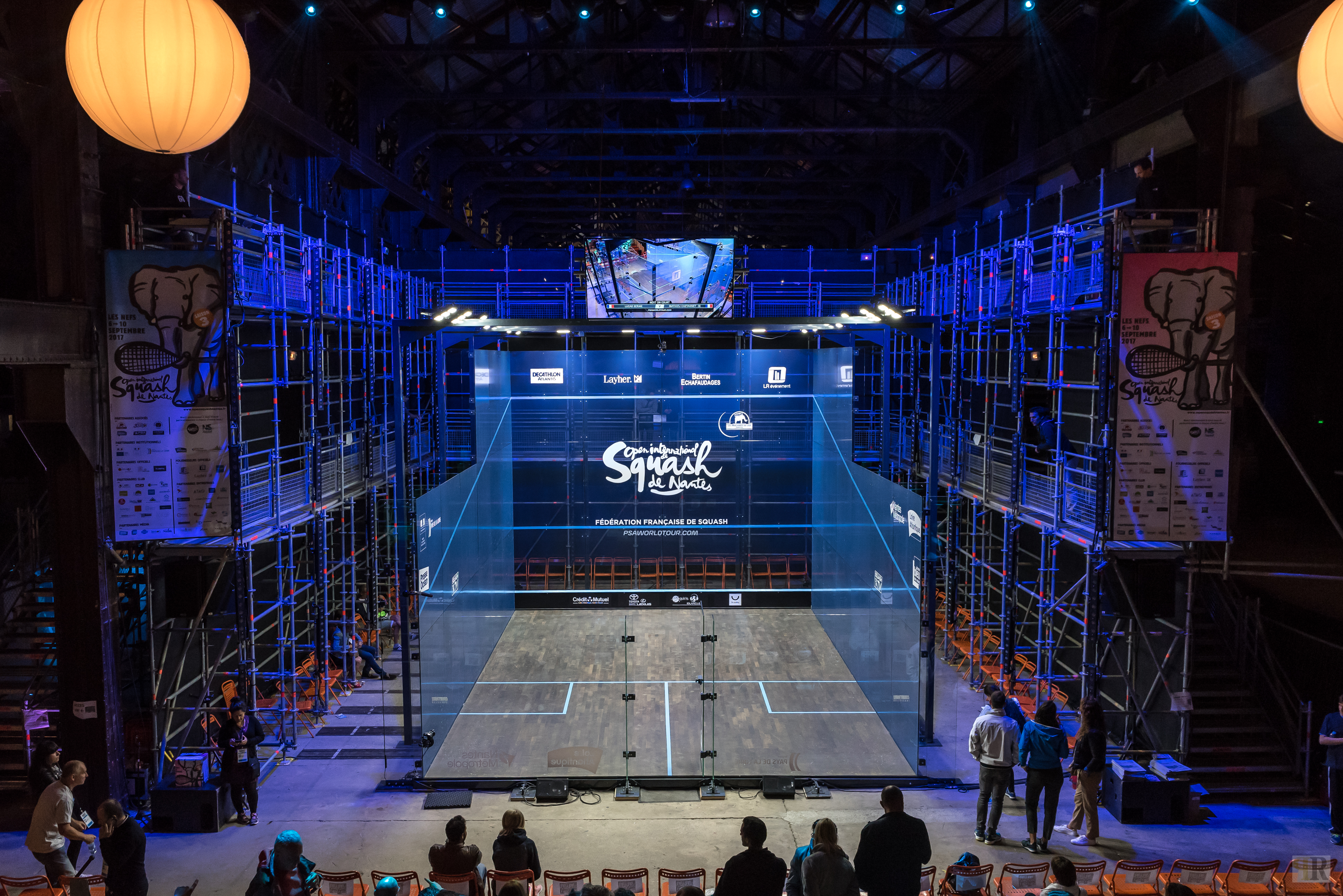 Glass court under the Naves of the Open International de Squash de Nantes 2017